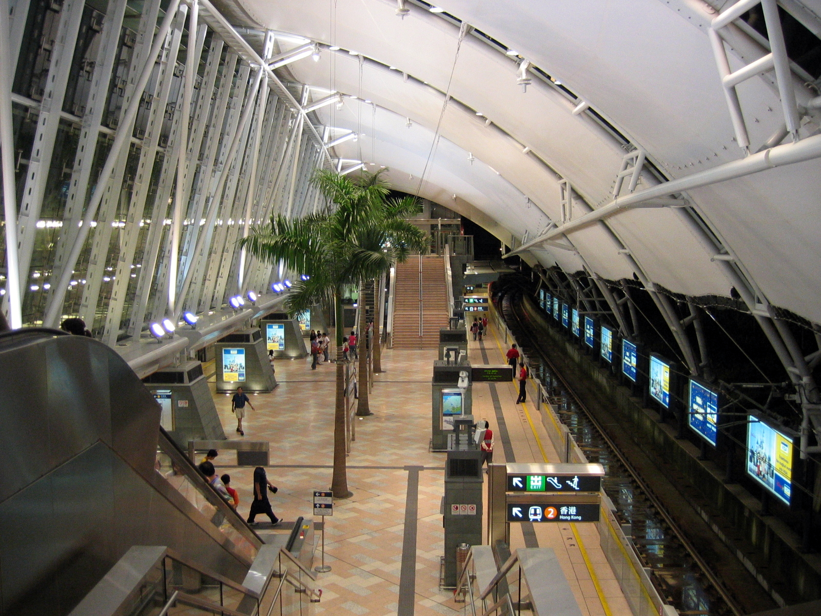 HK Sunny Bay Station 欣澳站